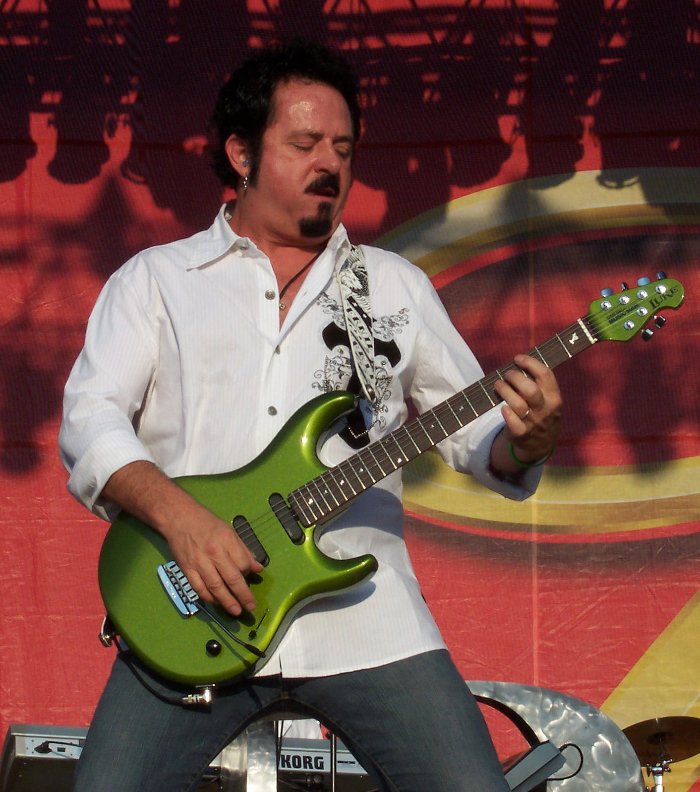 from Toto Moondance Jam concert 7/14/07. Photo by Matt Becker